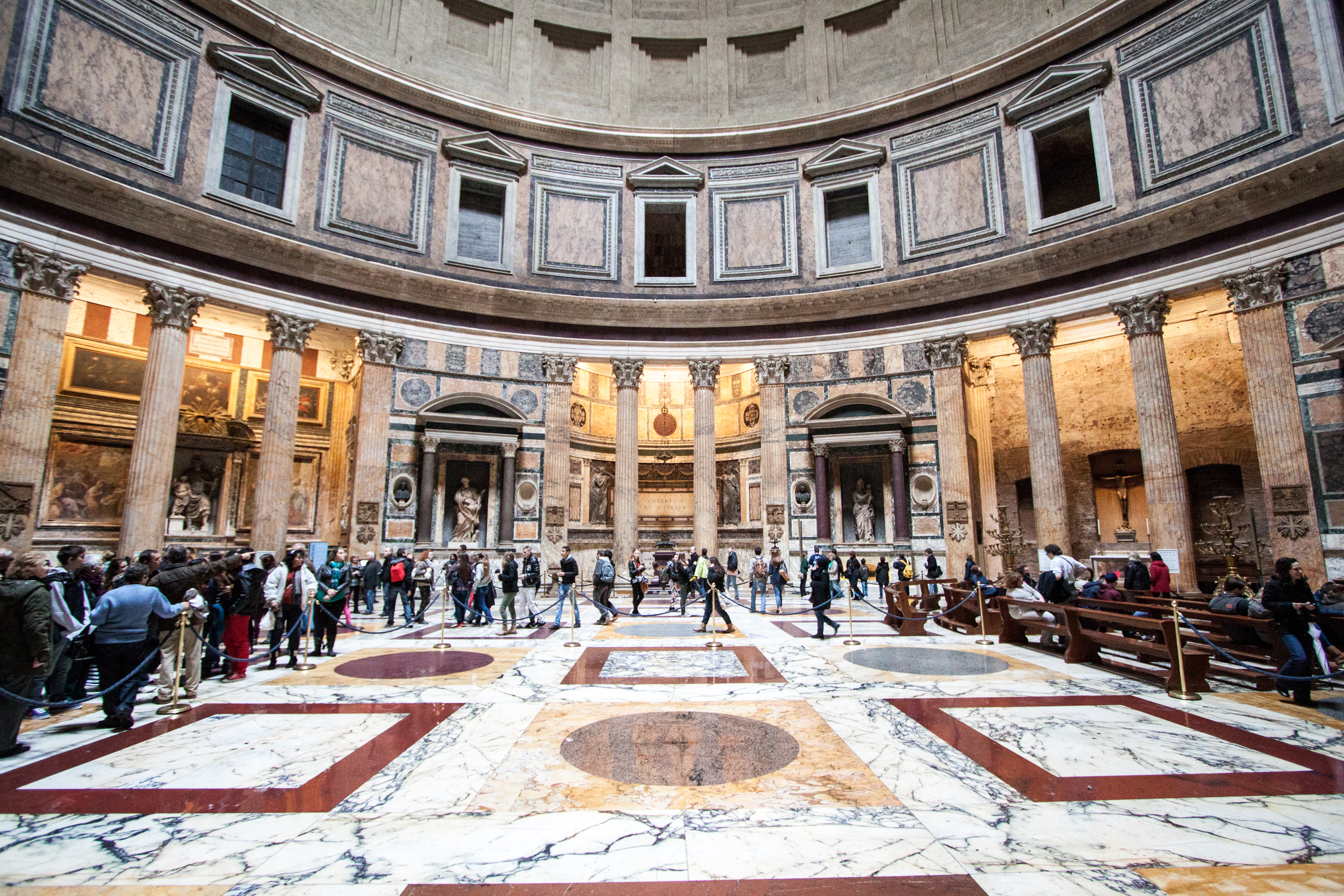 Pantheon, side view of the centrum of the rotondalabel QS:Len,"Pantheon, side view of the centrum of the rotonda" label QS:Lhu,"A római Pantheon, belső kép"